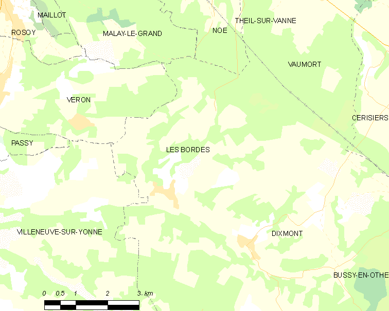 Map of French municipality Les Bordes